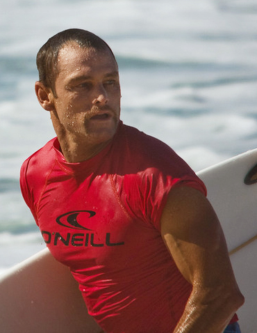 Taylor Knox at a surf contest in 2009